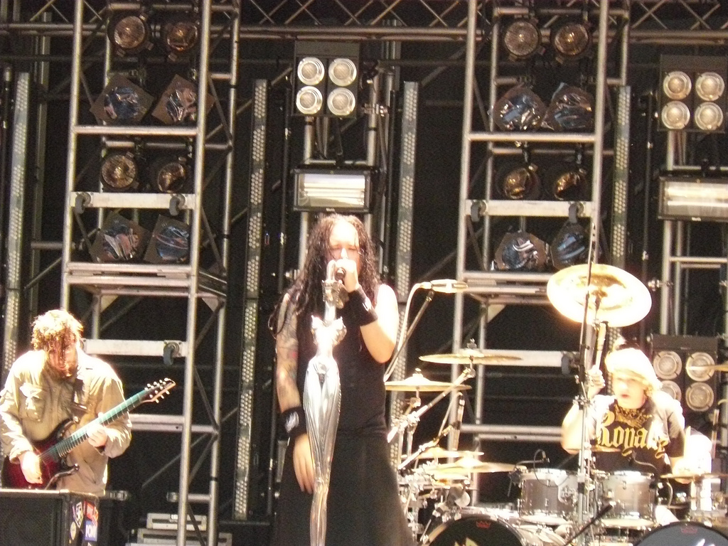 Korn at Idroscalo, Milano 26/06/2009